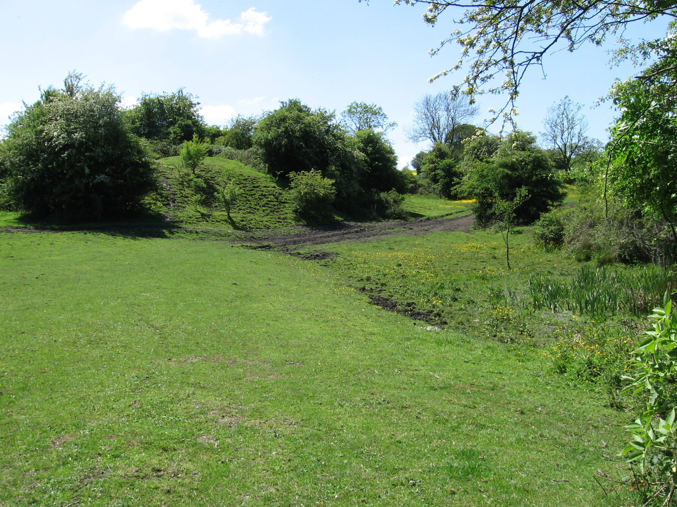 Newton - Red Barn Bell Pits from Nunns Brook